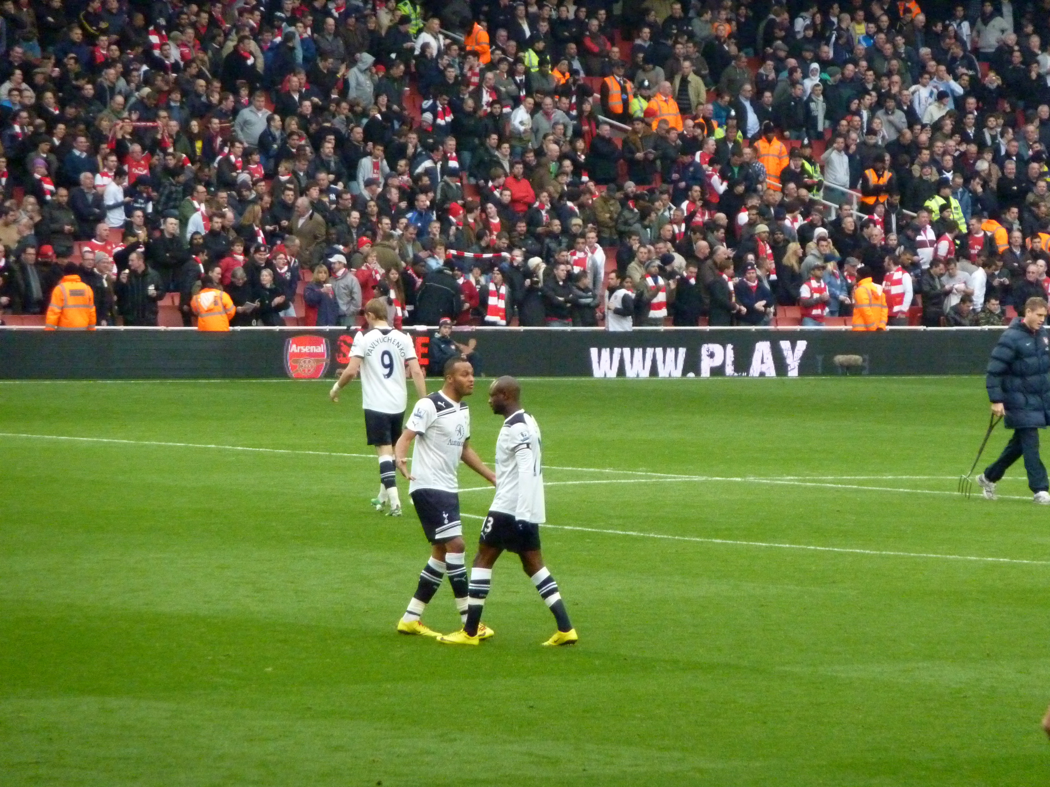 Younes Kaboul and William Gallas of Tottenham against Arsenal